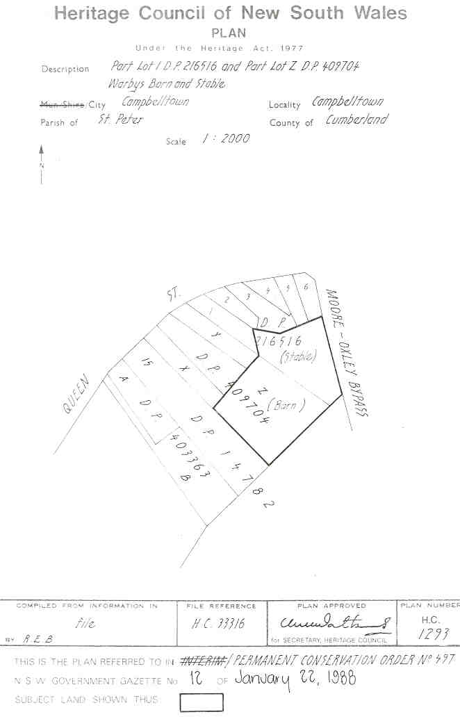 Warbys Barn and Stables: PCO Plan Number 497